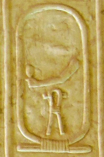 Cartouche 16, Abydos King List. Temple of Seti I, Abydos, Egypt